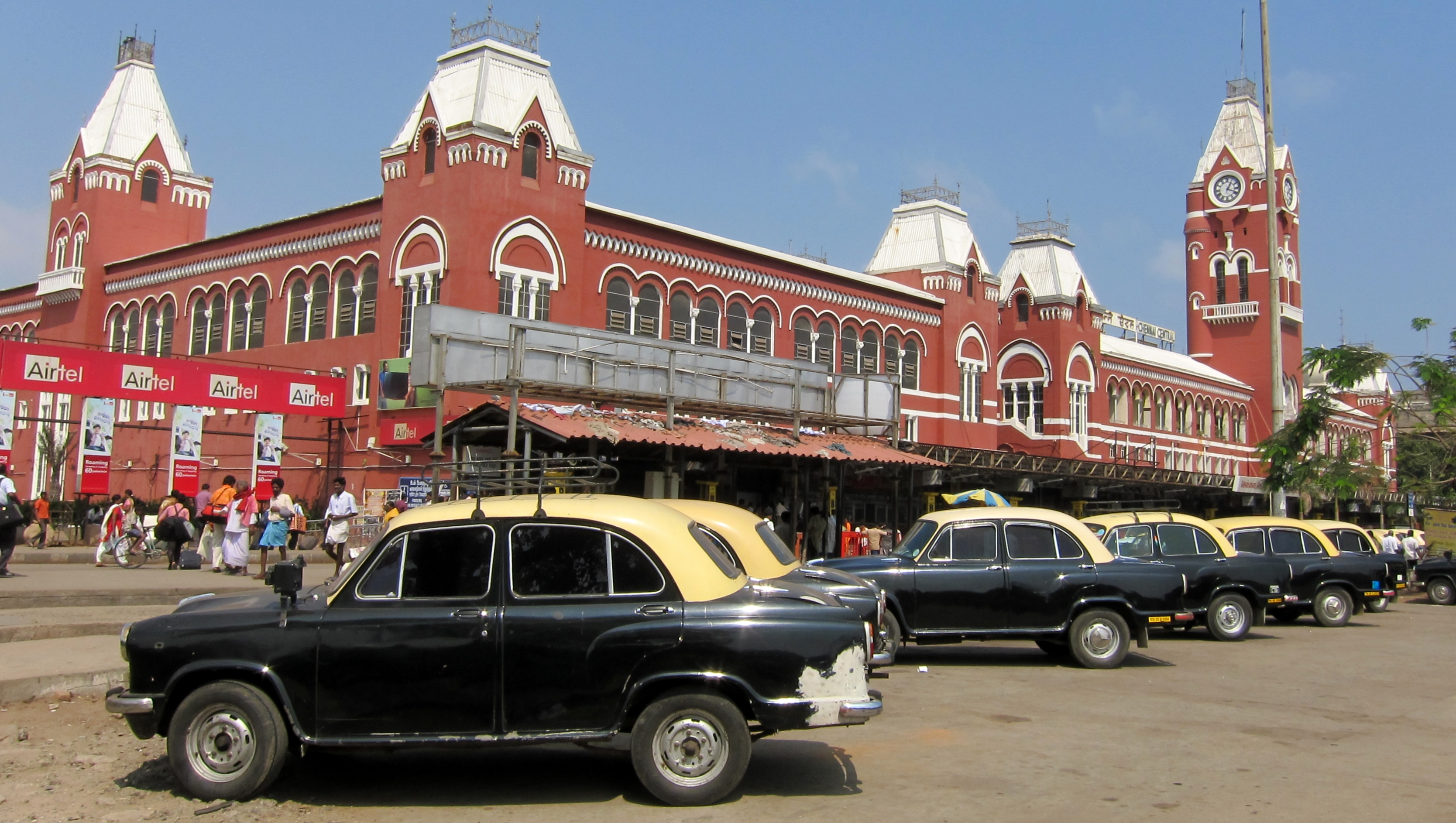 Chennai Central taxi stand